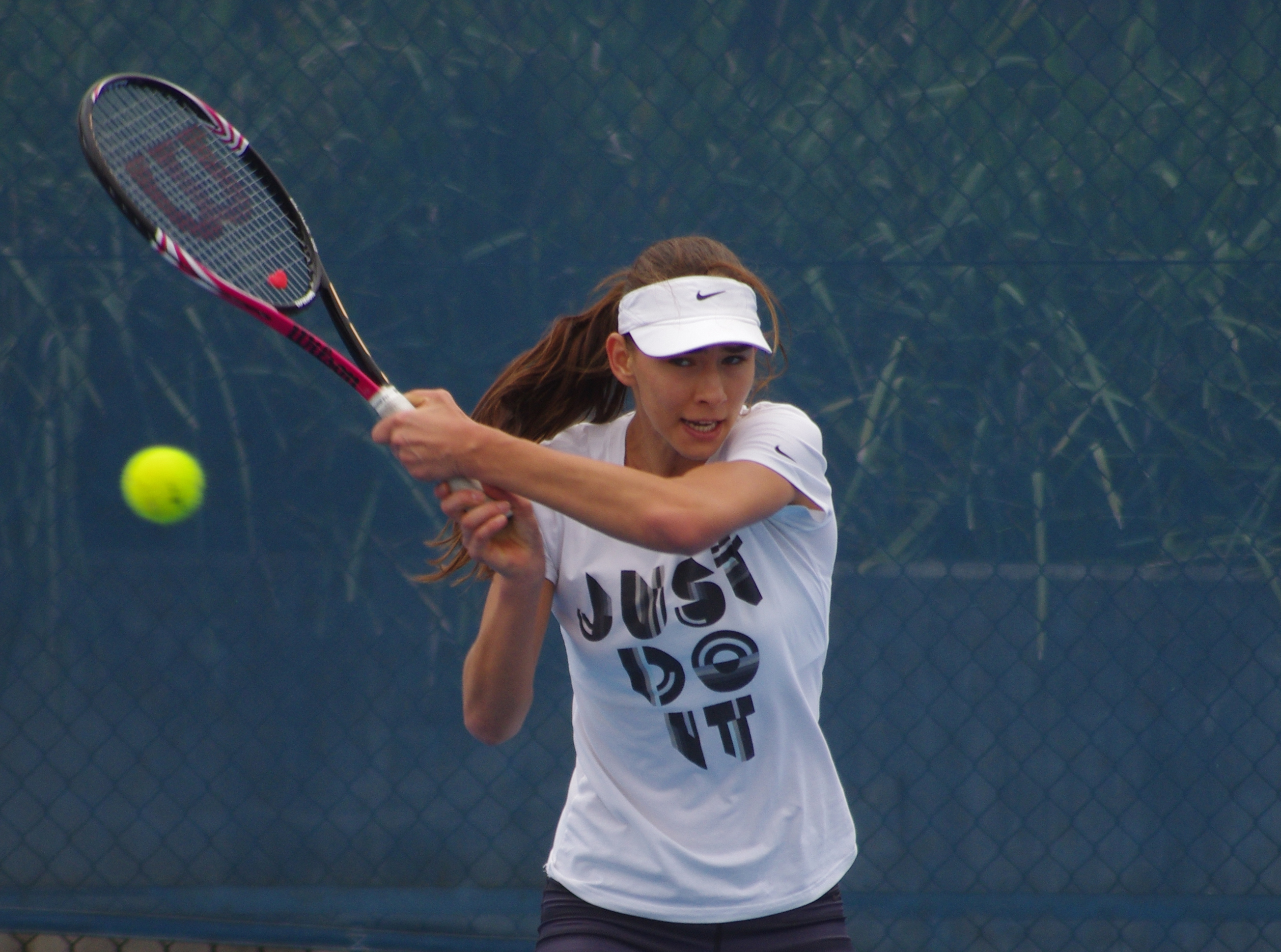 Anastasia Pivovarova 2012 Australia